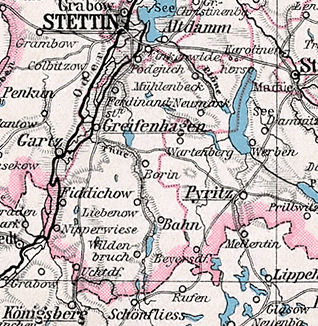 Detail from a map of Pomerania.